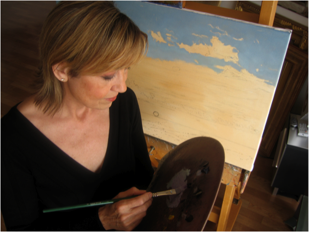 The artist Sarah Webb painting